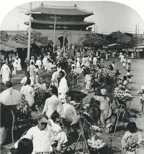 Namdaemun, Seoul, Korea, in 1904 Bân-lâm-gú: 1904年，朝鮮王朝漢城的南大門。 1904-nî, Tiâu-sián Ông-tiâu Hàn-siânn ê Lâm-tuā-mn̂g.